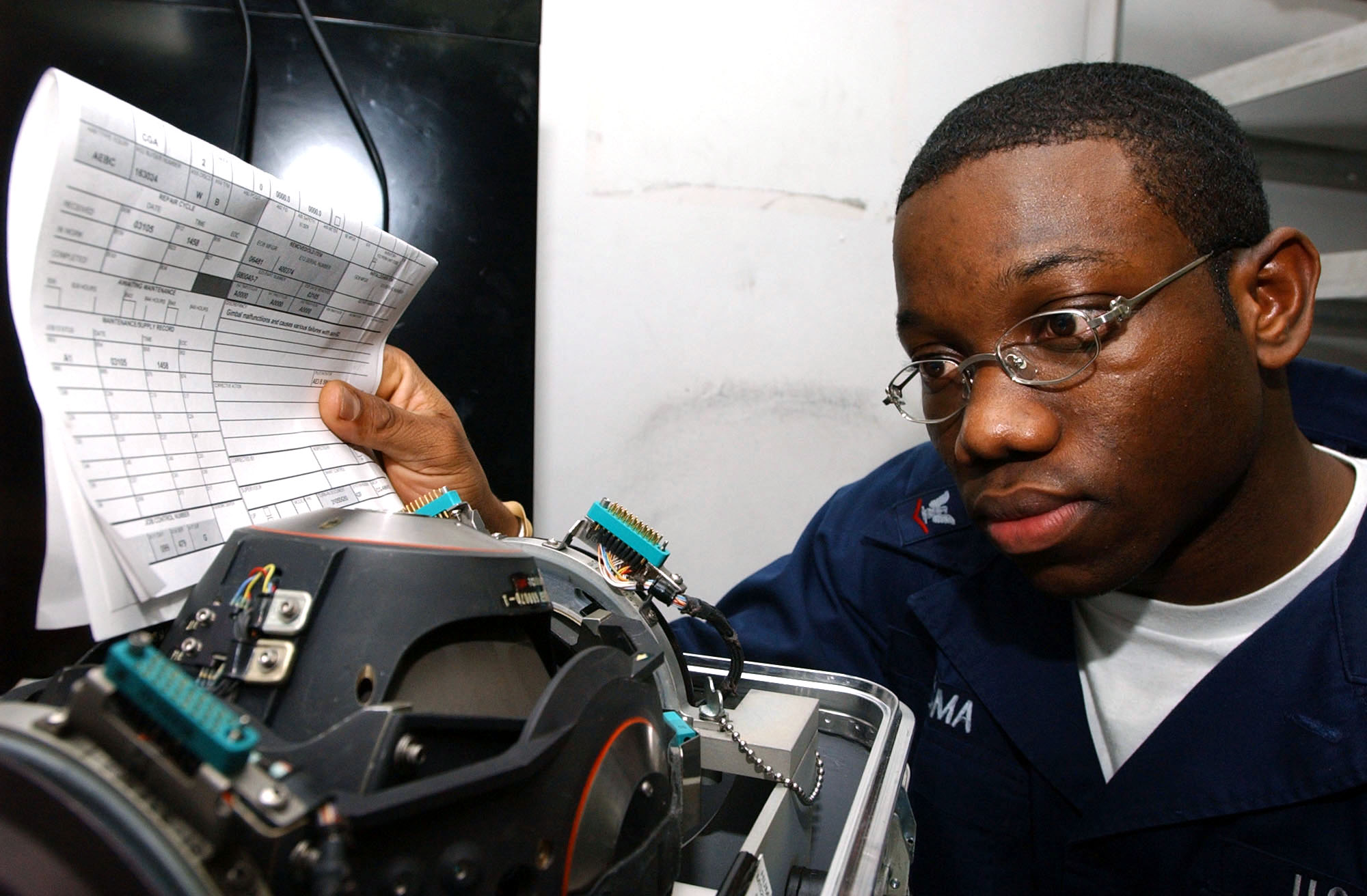 Mediterranean Sea (Apr. 15, 2003) -- Storekeeper 3rd Class Bertholet Brisma, checks serial numbers on a servo amplifier in the Repairable Asset Management Shop aboard USS Harry S. Truman (CVN 75). Truman and Carrier Air Wing Three (CVW-3) are currently on deployment conducting missions in support of Operation Iraqi Freedom. Operation Iraqi Freedom is the multinational coalition effort to liberate the Iraqi people, eliminate Iraq's weapons of mass destruction and end the regime of Saddam Hussein. U.S. Navy photo by Photographer's Mate 3rd Class Danny Ewing Jr. (RELEASED)